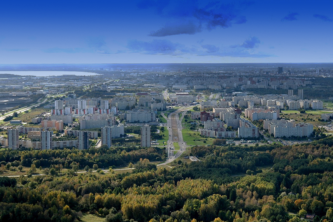 Lasnamäe from altitude 260 meters